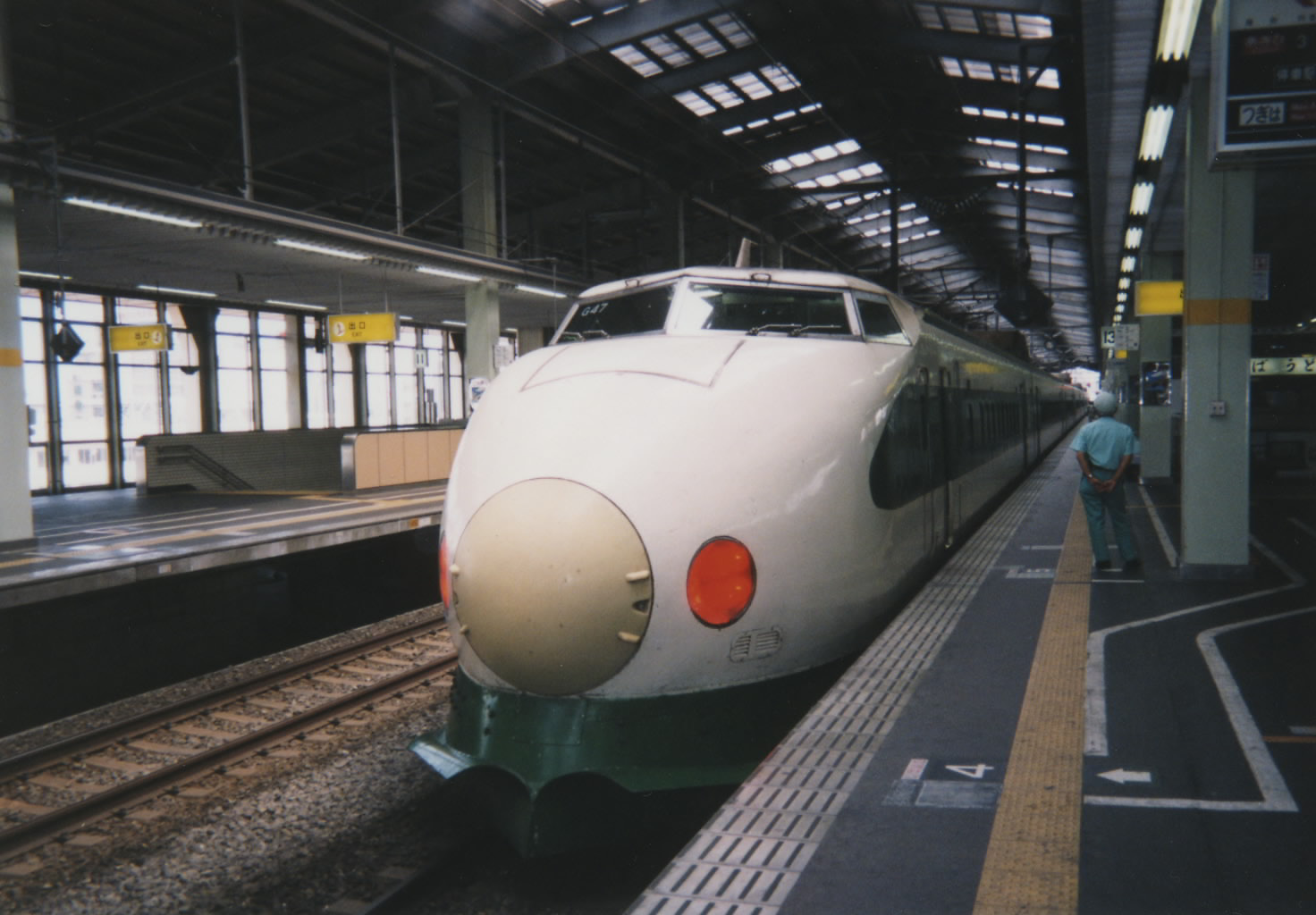 200 series shinkansen set G47, date and location unknown